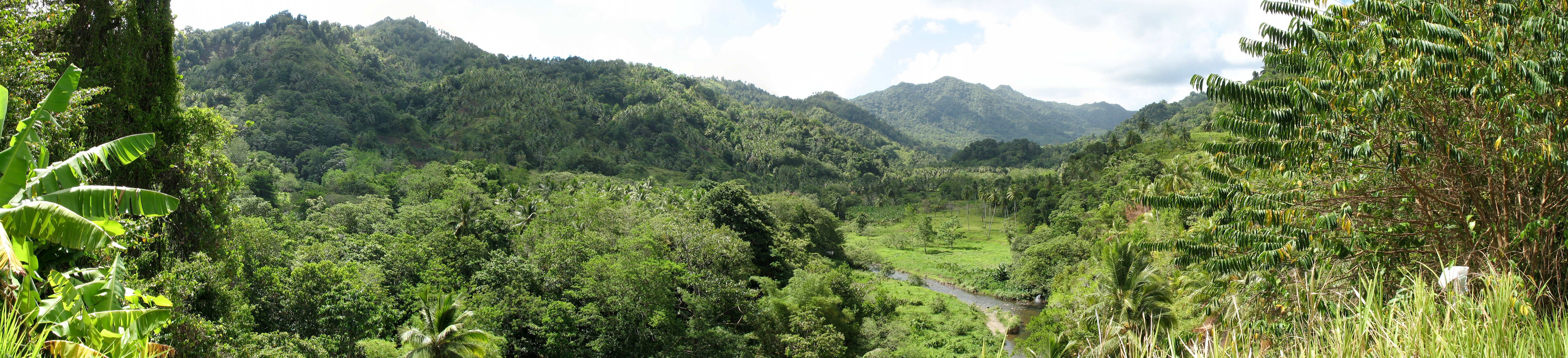 Landscape of the inner part of Dominica